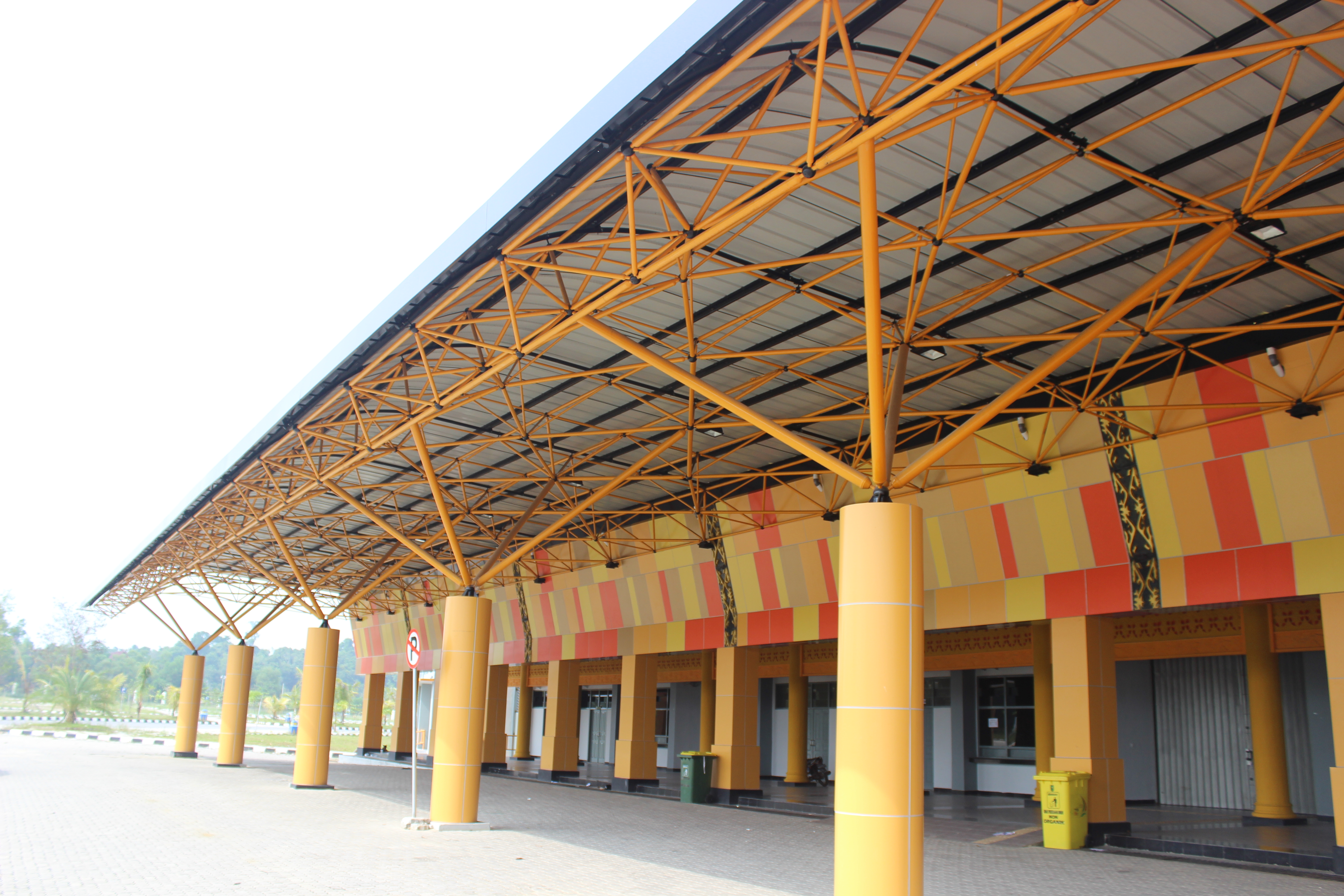 The main gate of Kaharuddin Nasution Stadium, or Rumbai Stadium, a football stadium in Pekanbaru, Riau.